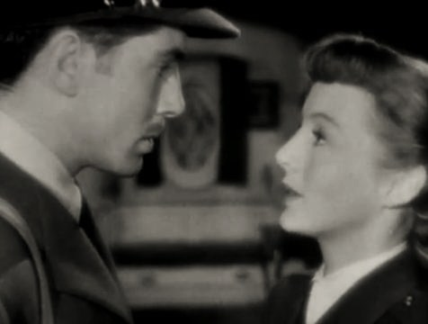 Farley Granger & Evelyn Keyes in Enchantment - trailer (cropped screenshot)